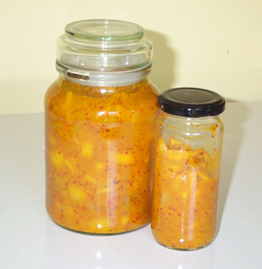 A fermented lemon pickle, recipe on Wikibooks Cookbook.